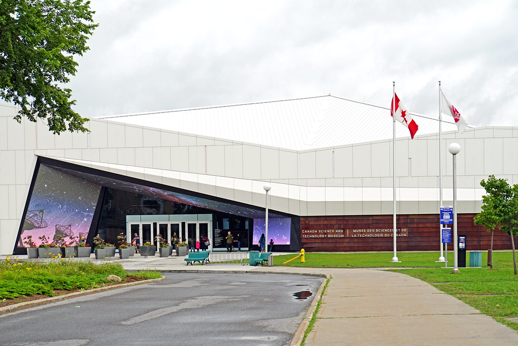 Front entrance of the Canada Science and Technology Museum